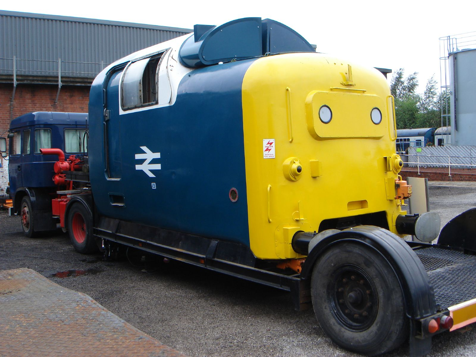 A Deltic simulator carried by a low-loader